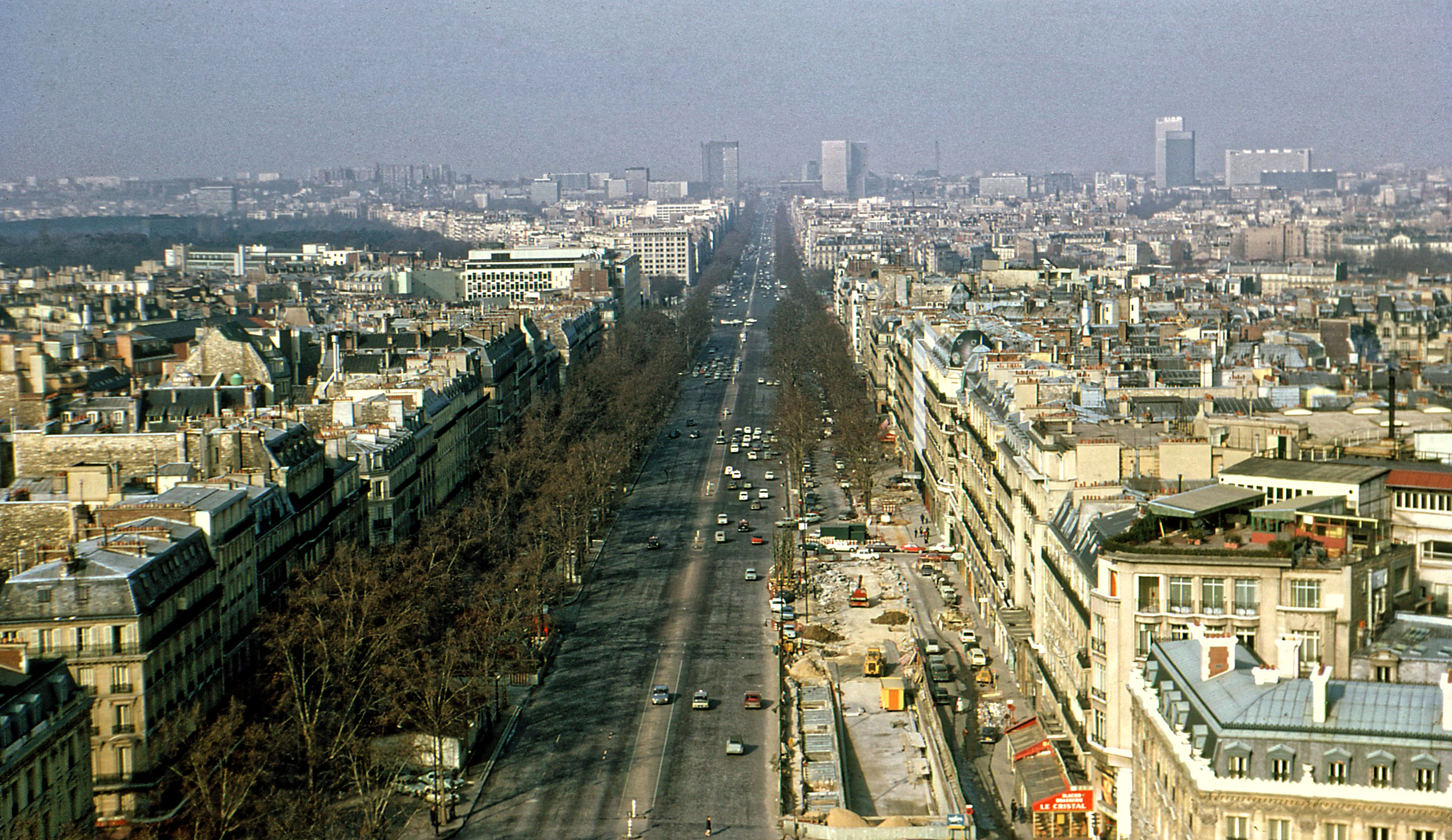 Views of the Paris rooftops in April 1970. From a series of photographs taken from old coloured slides.Wikimedia photograph with applied colour correction, brightening/contrast/sharpening/haze removal with DxO PhotoLab, Viewpoint 3, and Adobe Photoshop CS2. Kept to original aspect ratio.